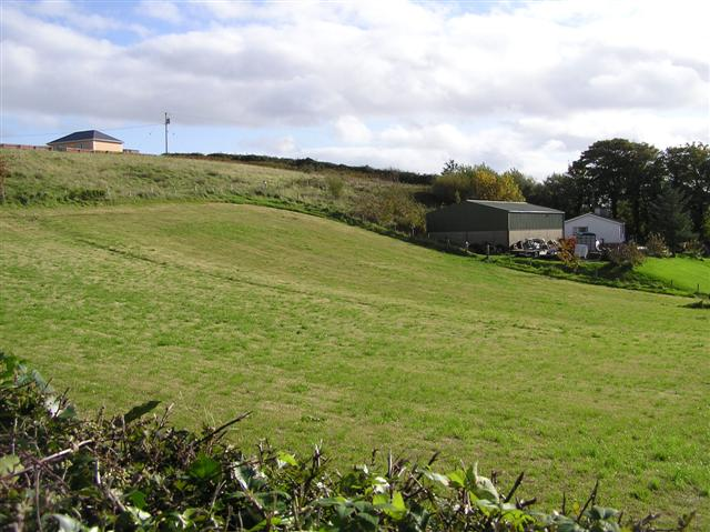 Drumerdagh Townland Looking east